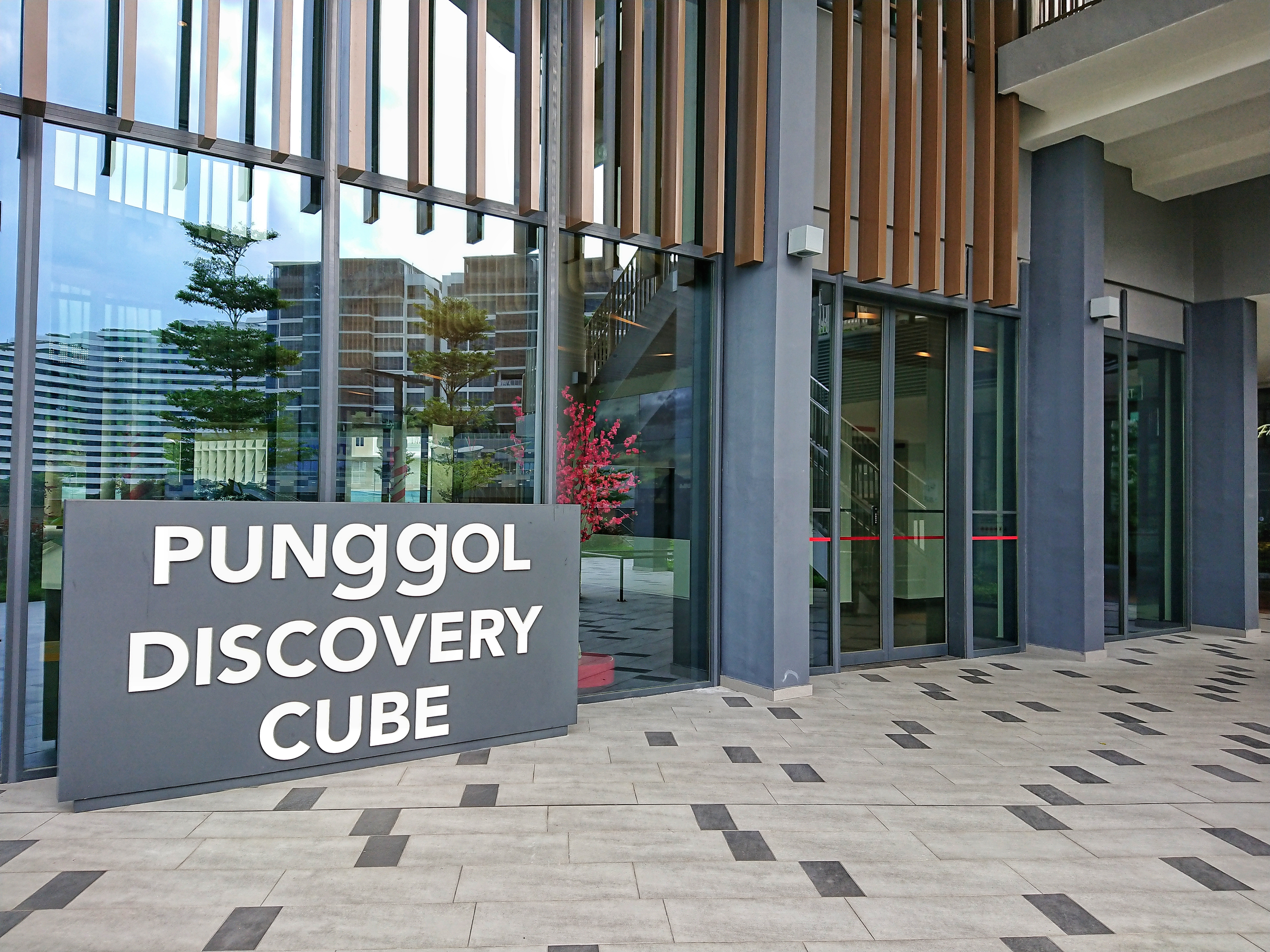 Punggol Discovery Cube, taken with the Xperia XZ Premium.